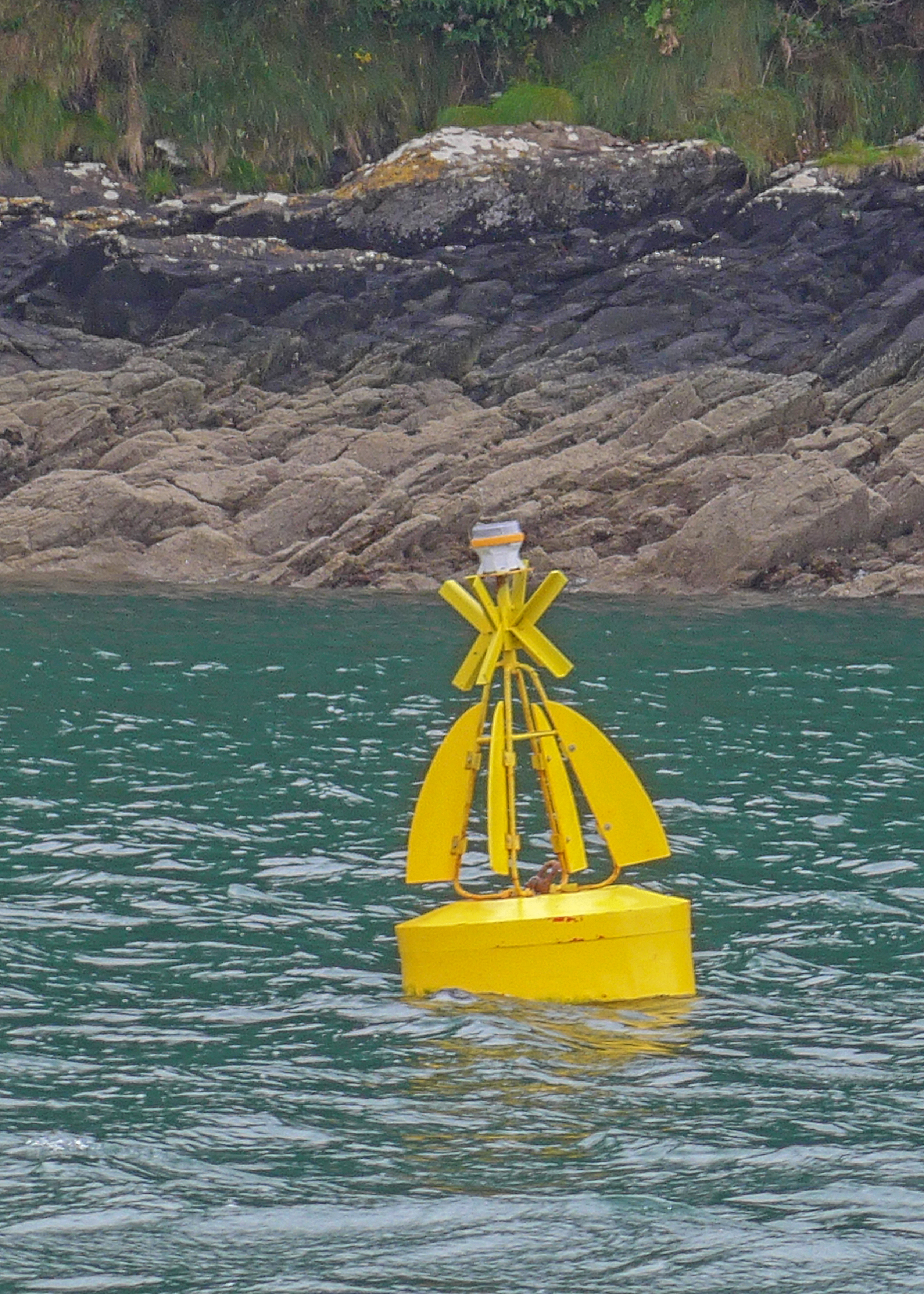 Yellow marker buoy in the Helford River